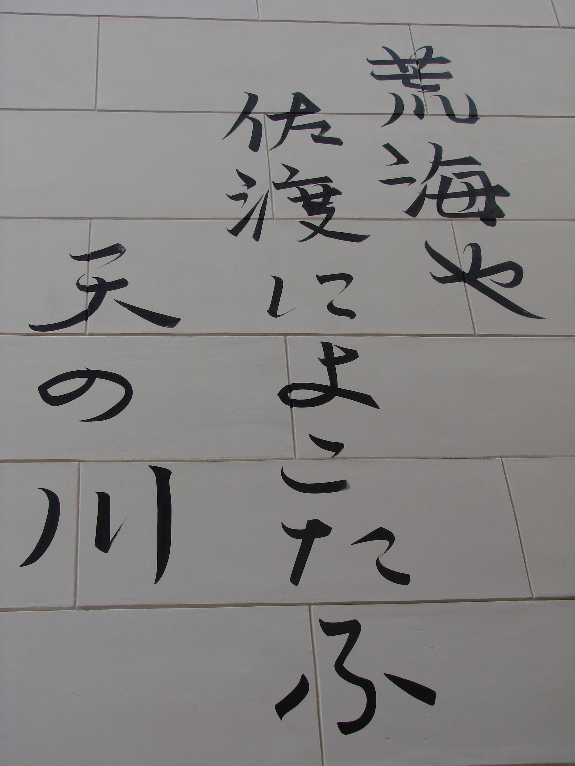 Wallpoem in Leiden, the Netherlands, of the poem The Rough Sea by the Japanese poet Matsuo Bashõ (1644 - 1694)